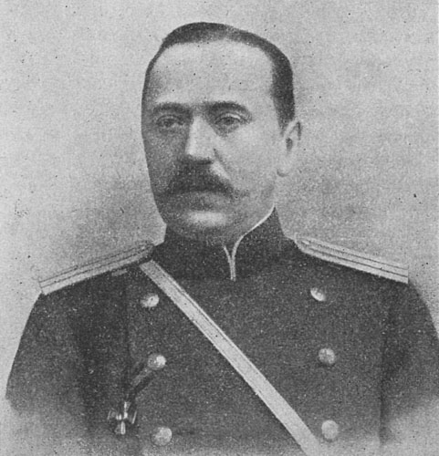 Photo of colonel of Russian Empire Zamyatnin, which was killed in 1906 due to attempt of Stolypin assasination.